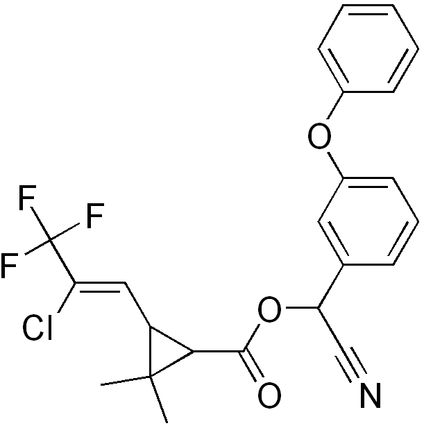 chemical structure of cyhalothrin